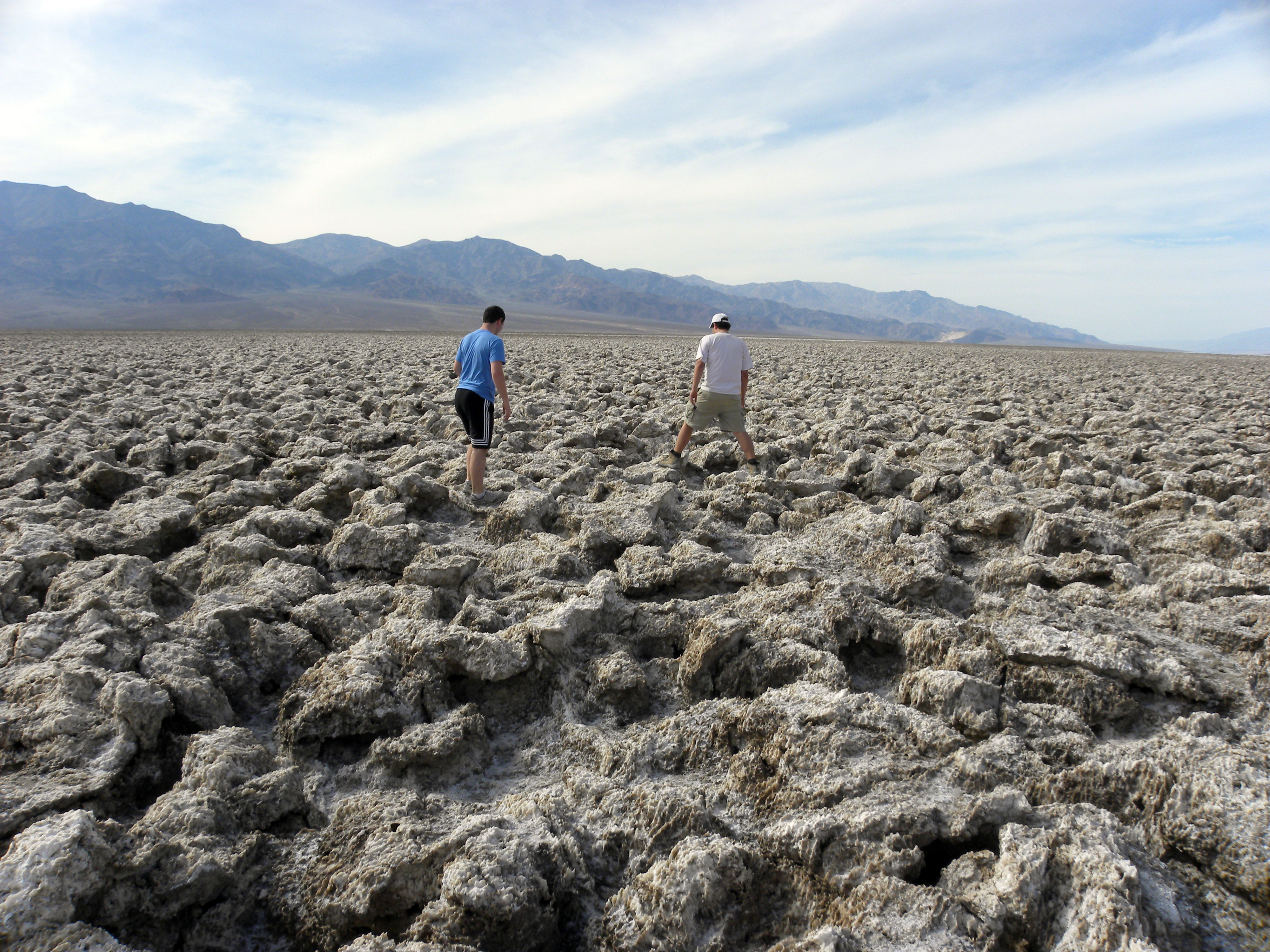 Devil's Golf Course, Death Valley, California.